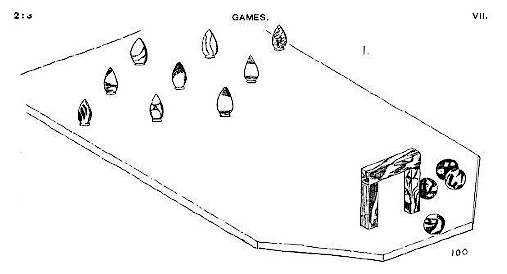 Archeologist's drawing of game found in ancient Egypt, resembling more modern Bowling game of Skittles (sport)